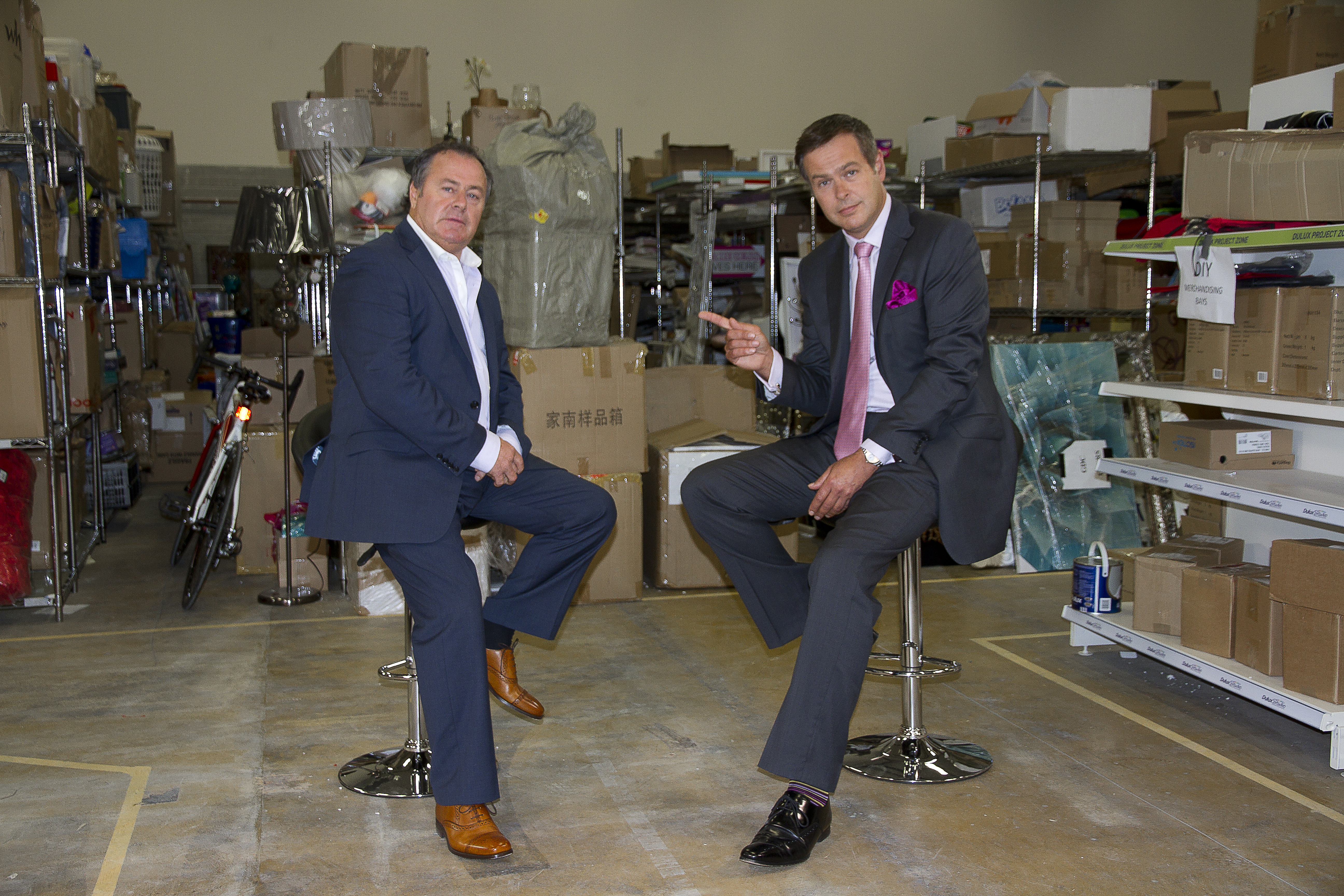 Chris Dawson & Peter Jones on set on Peter Jones Meets